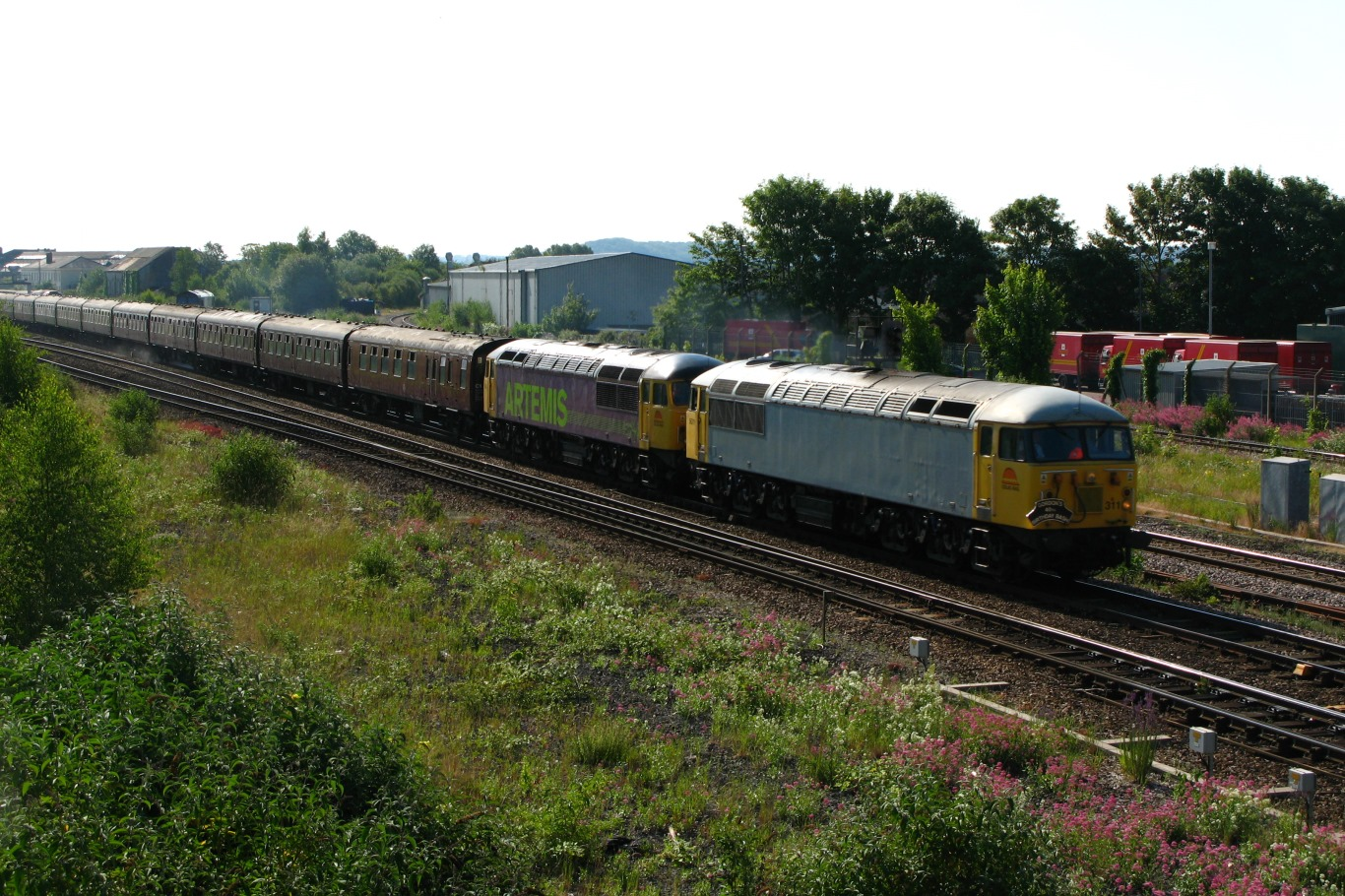 Hanson Traction's 56311 and 56312 pass through Taunton with a 'Mazey day' excursion to Penzance in 2010.